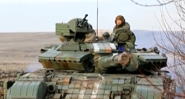 Ukrainian troops during the Battle of Debaltseve, 5 February 2015.